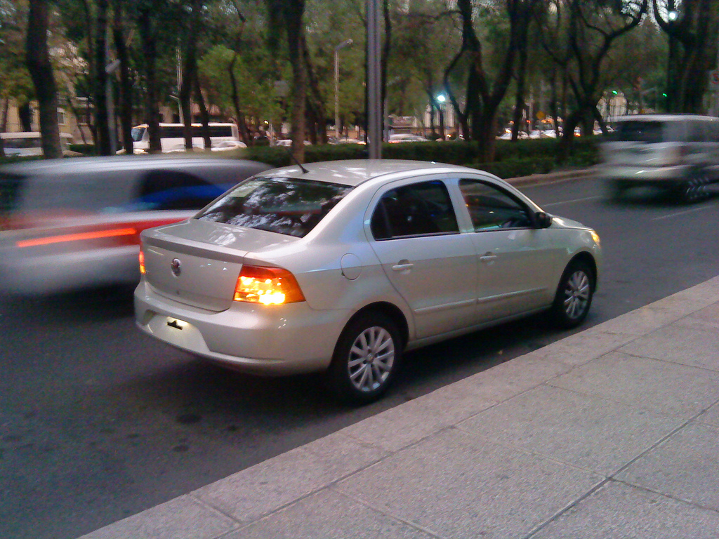 A 2009 Volkswagen Gol Sedan Comfortline (Volkswagen Voyage) for mexican market.